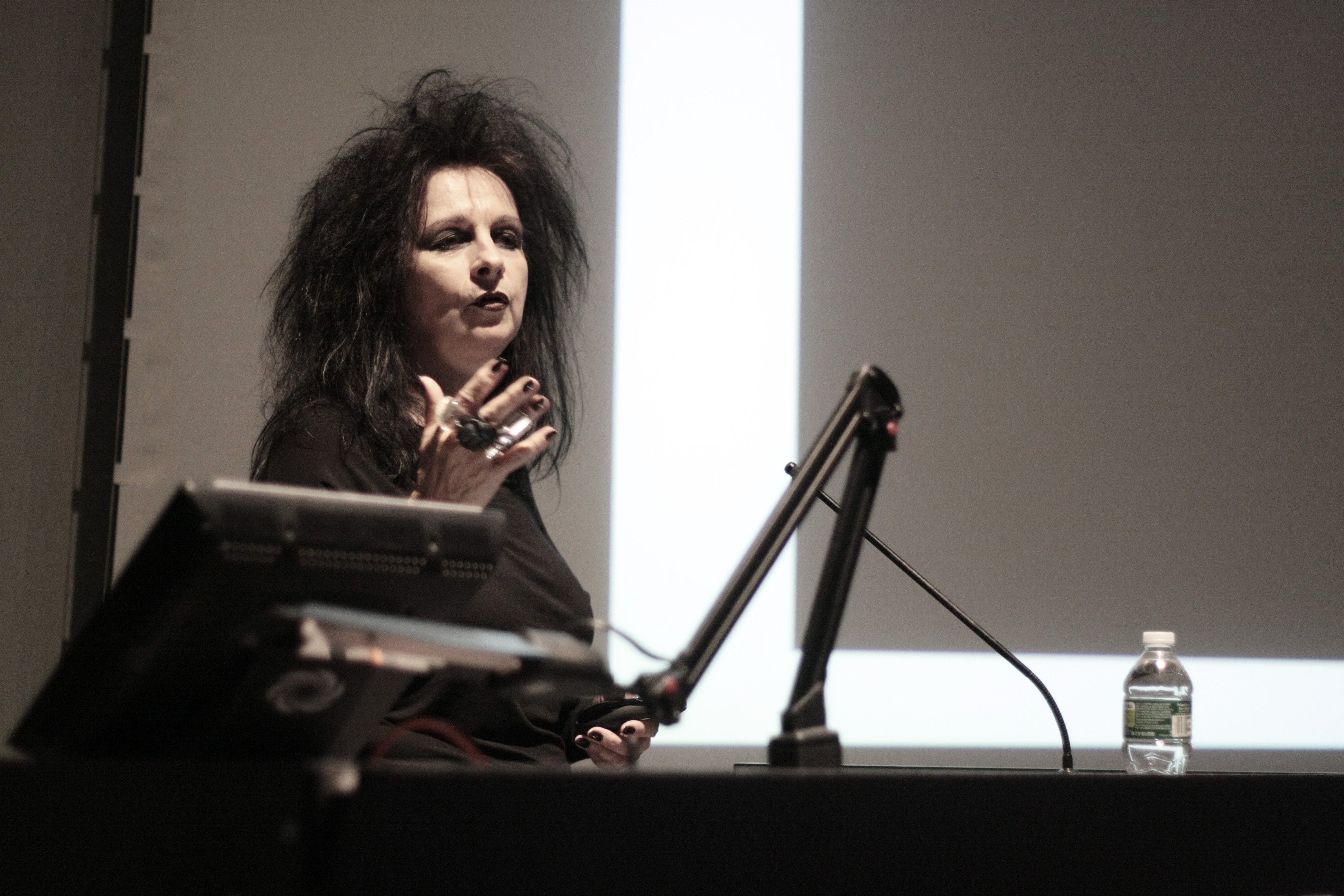 What is black and white and red all over?